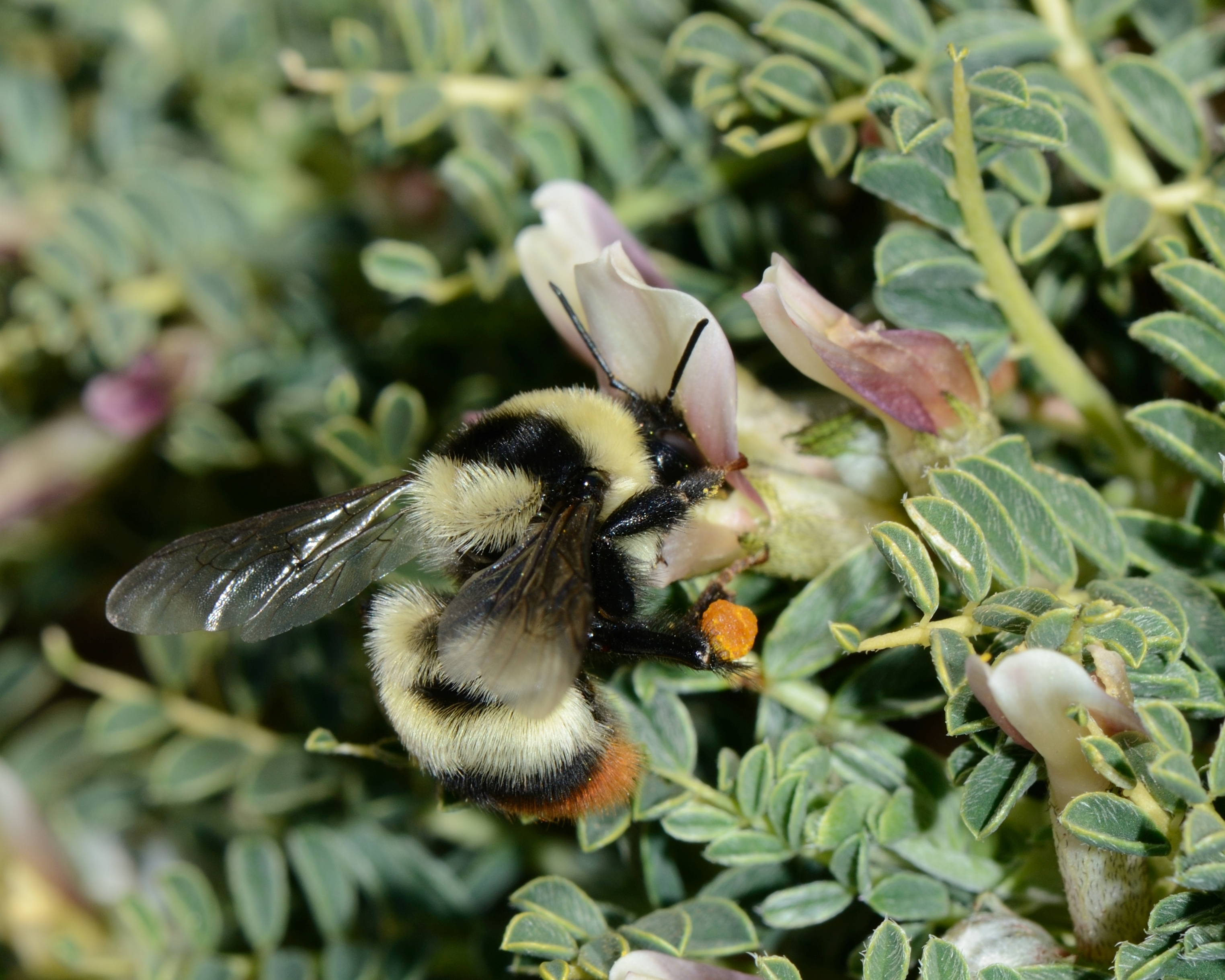 Bombus niveatus collecting nectar from Astragalus angustifolius, Mount Hermon, Israel/Syria, June 22, 2012.